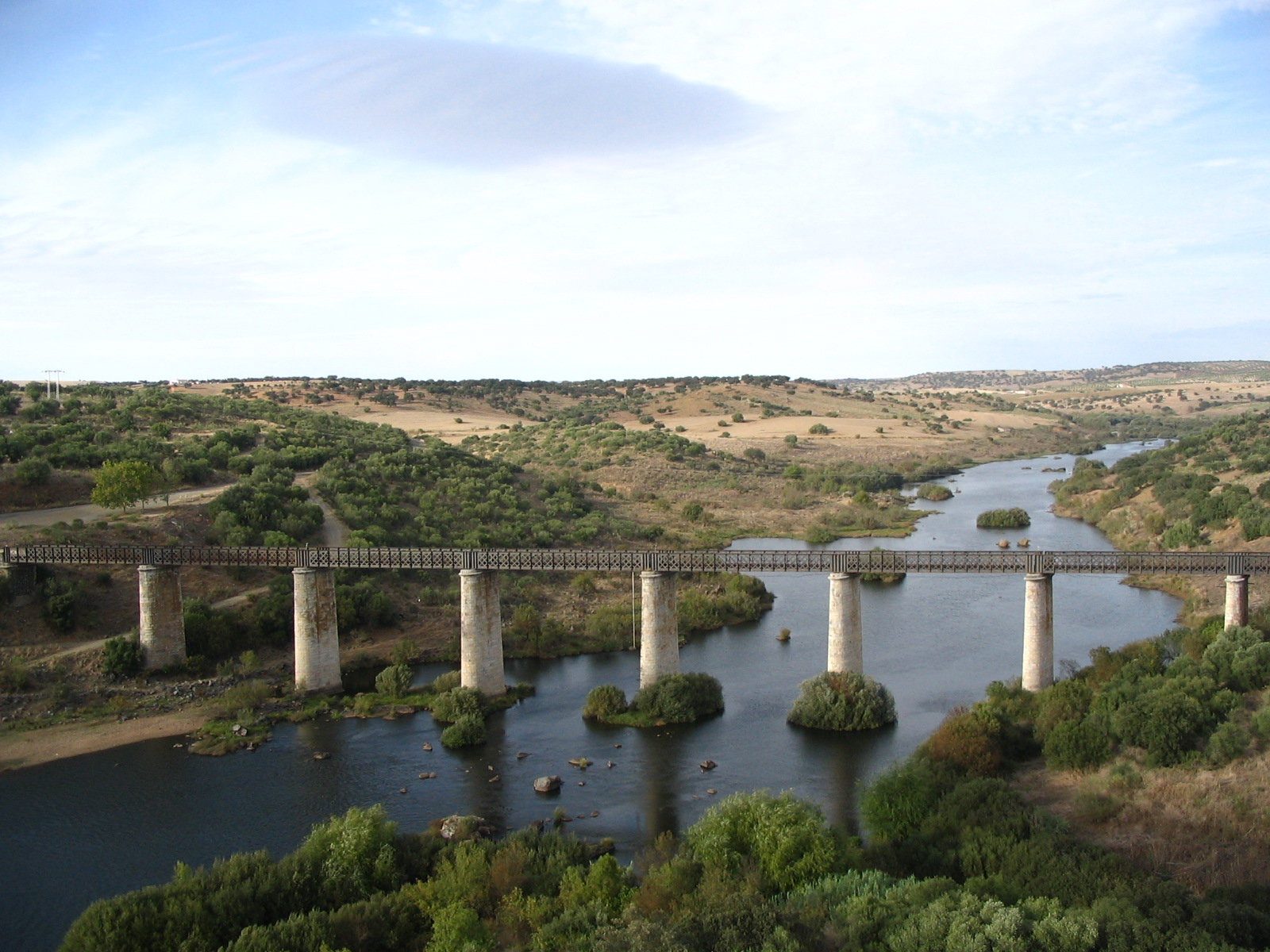 Old train bridge over Guadiana river